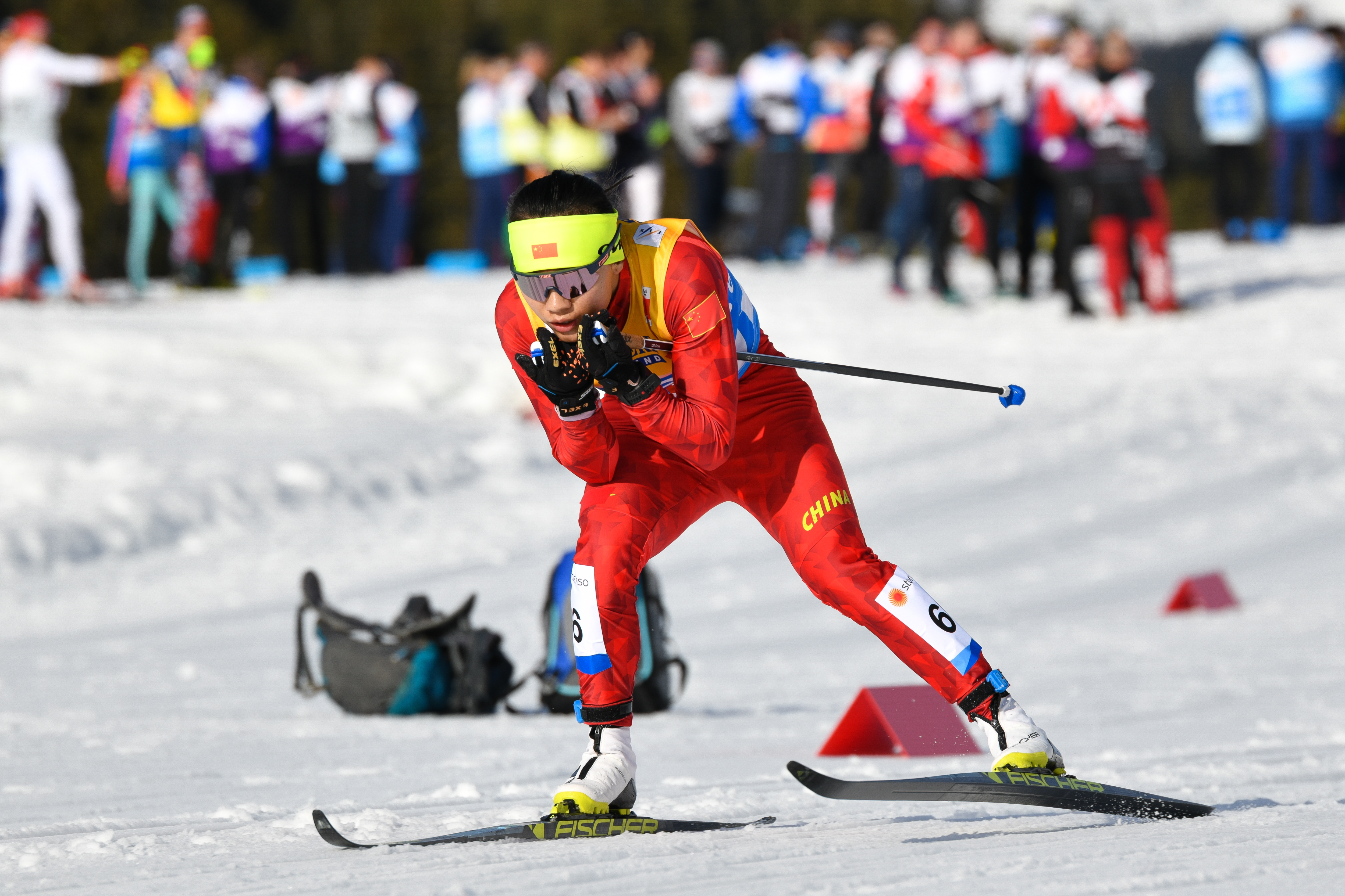 FIS Nordic World Ski Championships Seefeld 2019 - Ladies Cross Country 10km. Picture shows Chunxue Chi (CHN).